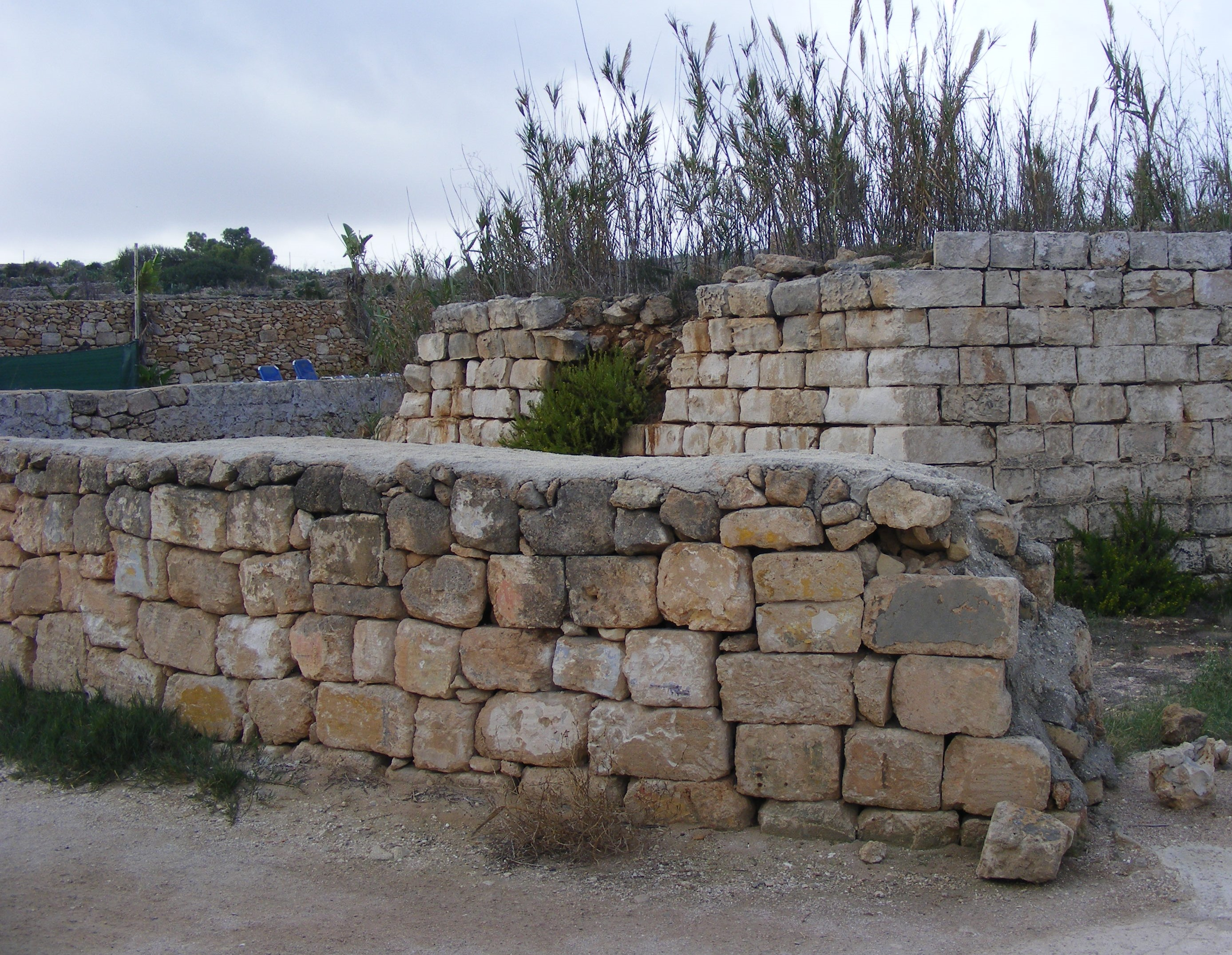 Ruins of Tal-Bir Redoubt in Mellieha, Malta. Visible remains of pentagonal platform (higher structure) and counterscarp. Picture taken from NNE.